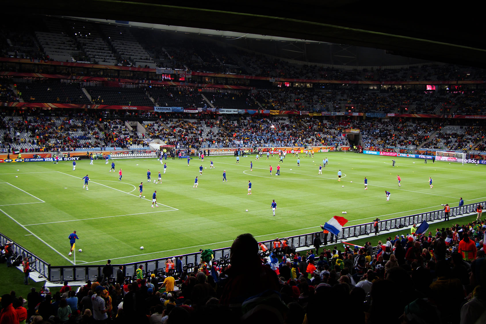 France vs Uruguay 2010 FIFA World Cup